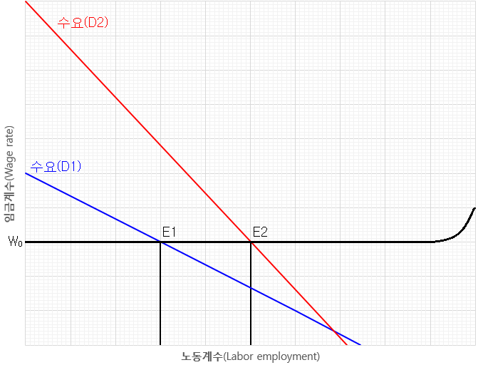 Theory of the Falling Rate of Profit in Marx Economics